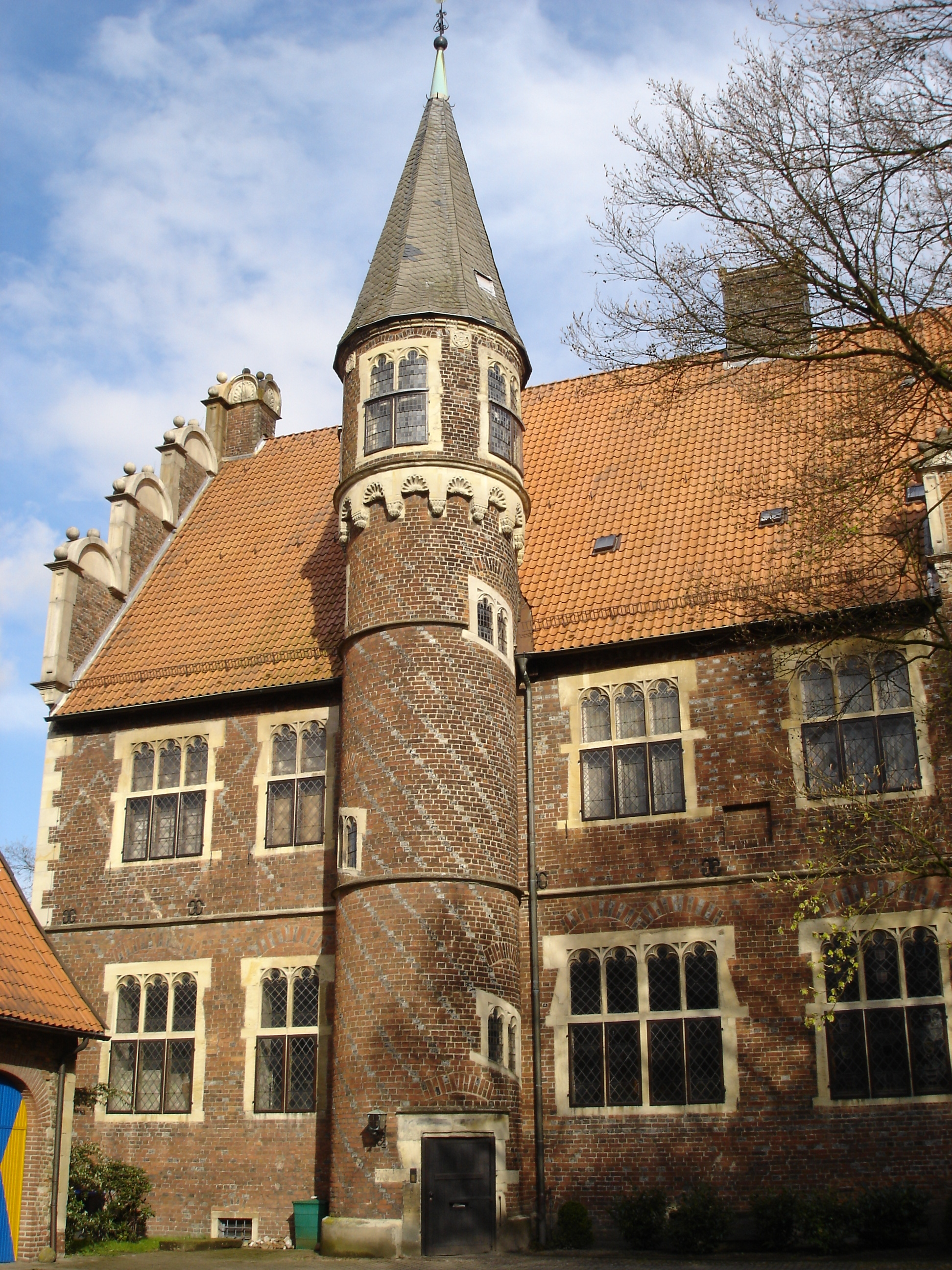 Main building with tower of the "Drostenhof" in Wolbeck, borough of Münster, Westphalia, Germany